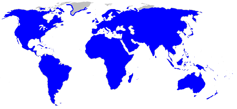 Map of Rosaceae distribution